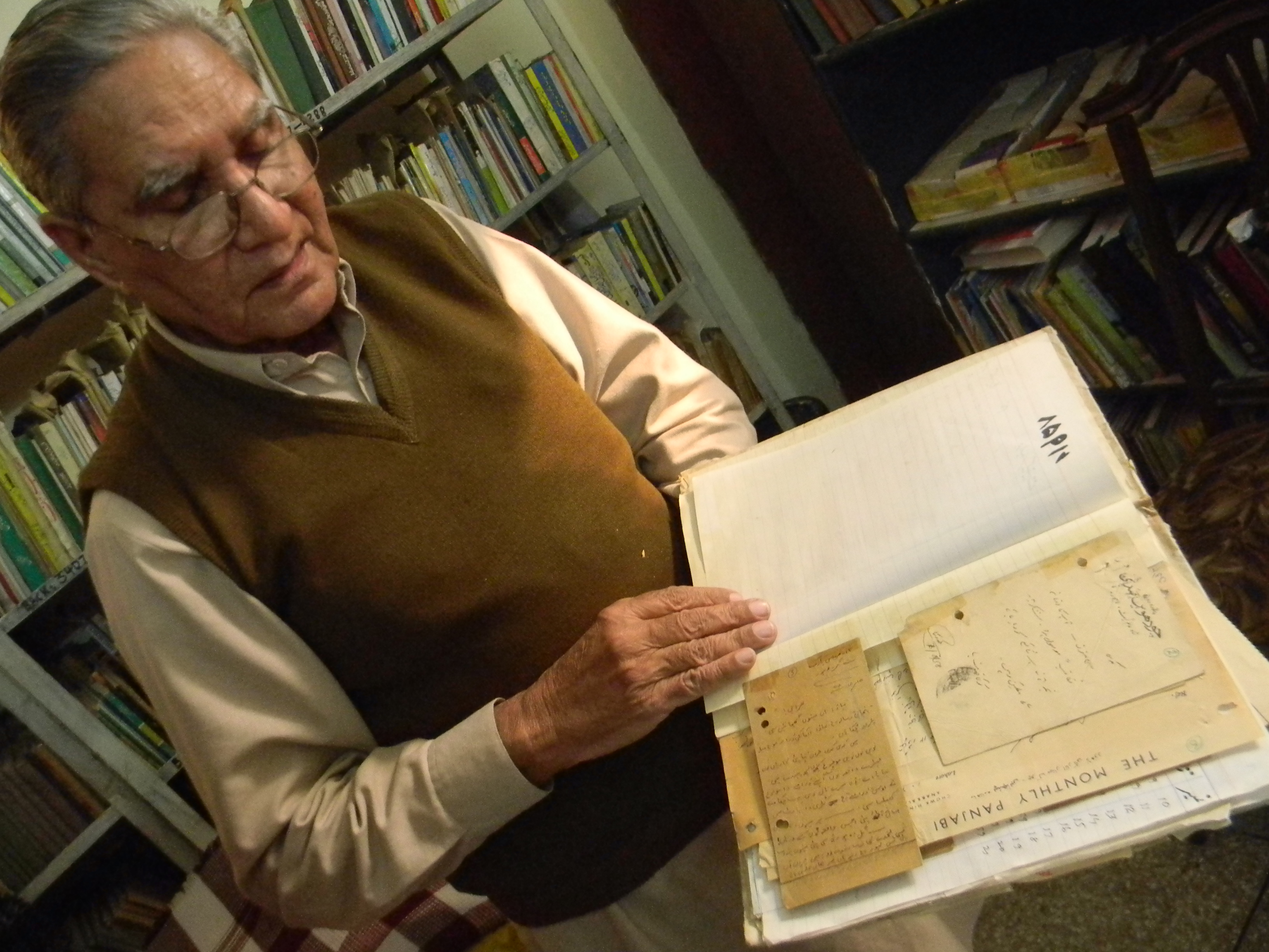 Dr Shahbaz Malik showing his letters' catalogue